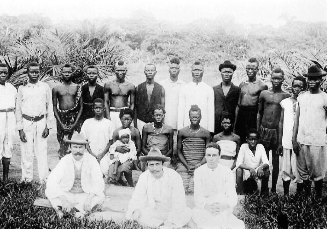 The Reverend John Hoobis Harris (left front) and his wife Alice Seeley Harris (right front) with a group of indigenous people on their visit to the Belgian Congo.